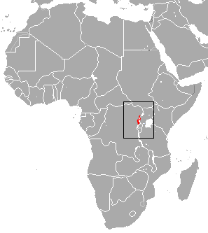 Ruwenzori Horseshoe Bat (Rhinolophus ruwenzorii) range